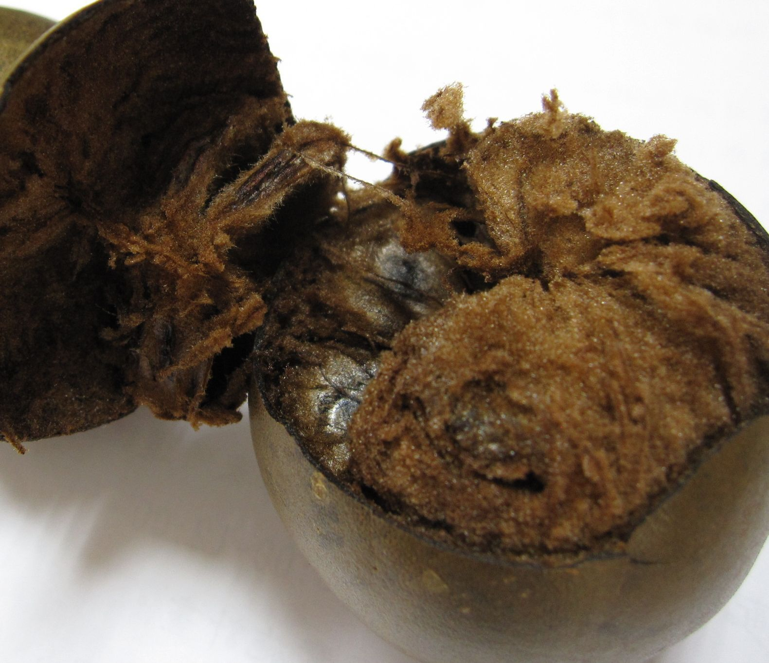 Opened Siraitia grosvenorii (luohanguo) fruit, dried.